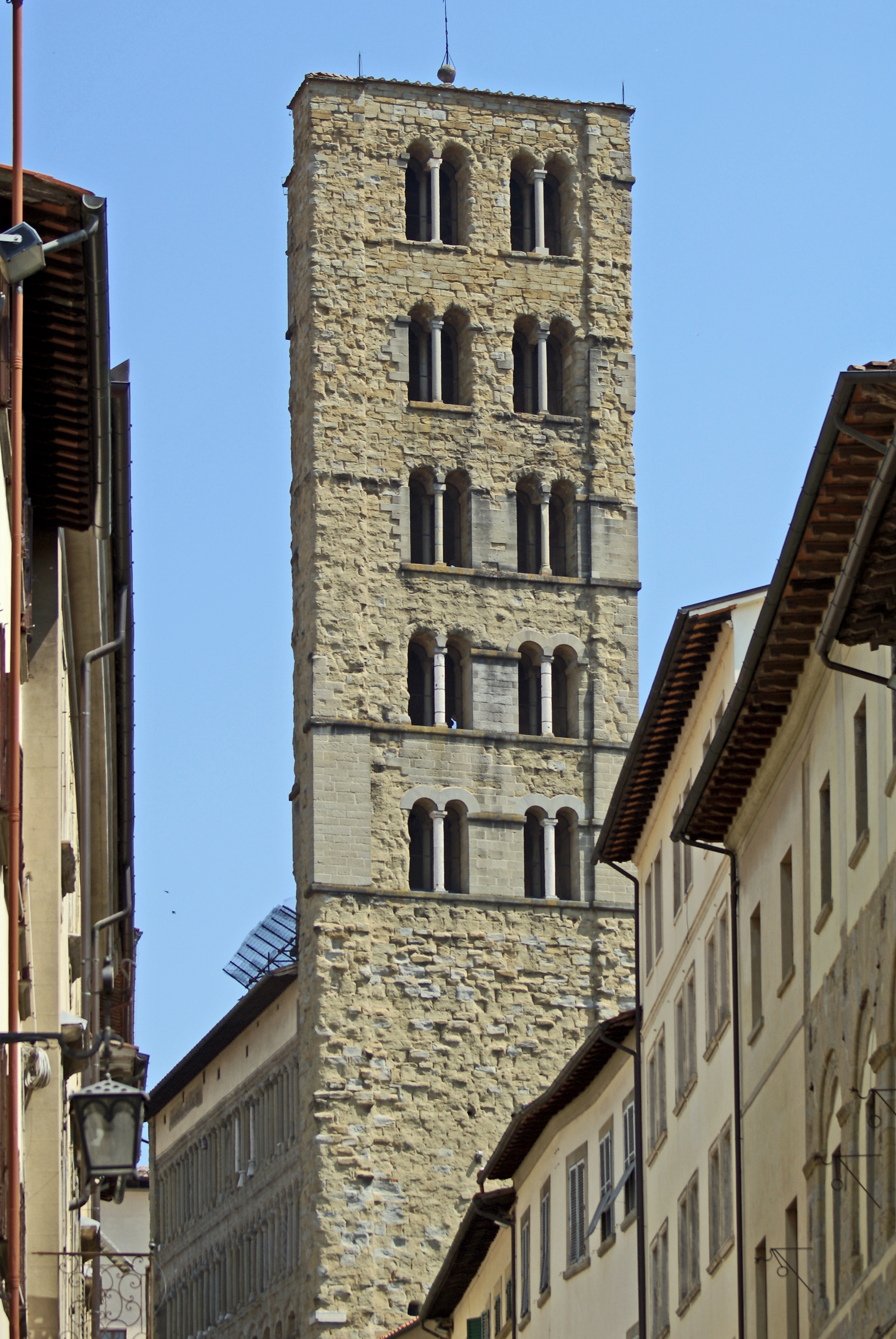 Santa Maria della Pieve (Arezzo) - Campanile hundred holes